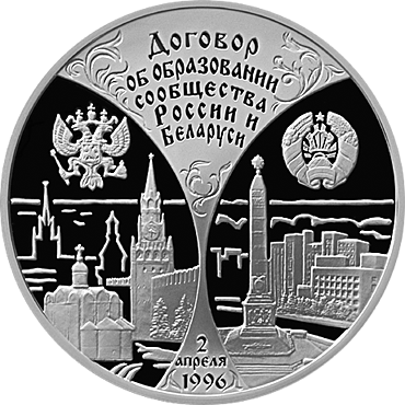 Belarus and the global community. Commemorative coin dedicated to the community of Russia and Belarus